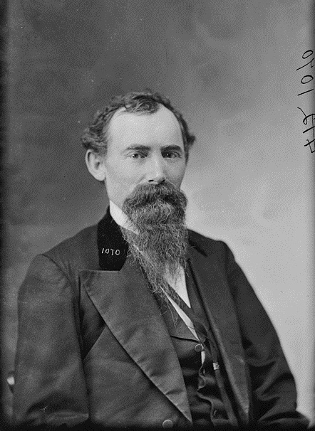 Henry L. Dickey from Brady Handy Collection.